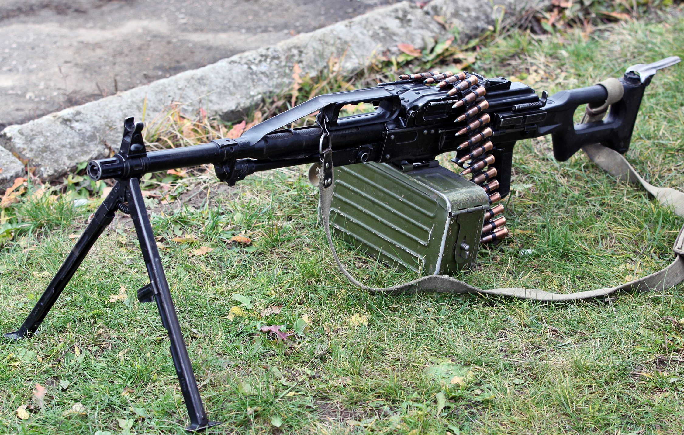 PKP Pecheneg machine gun shooting - 4th Guards Kantemirovskaya Tank Division